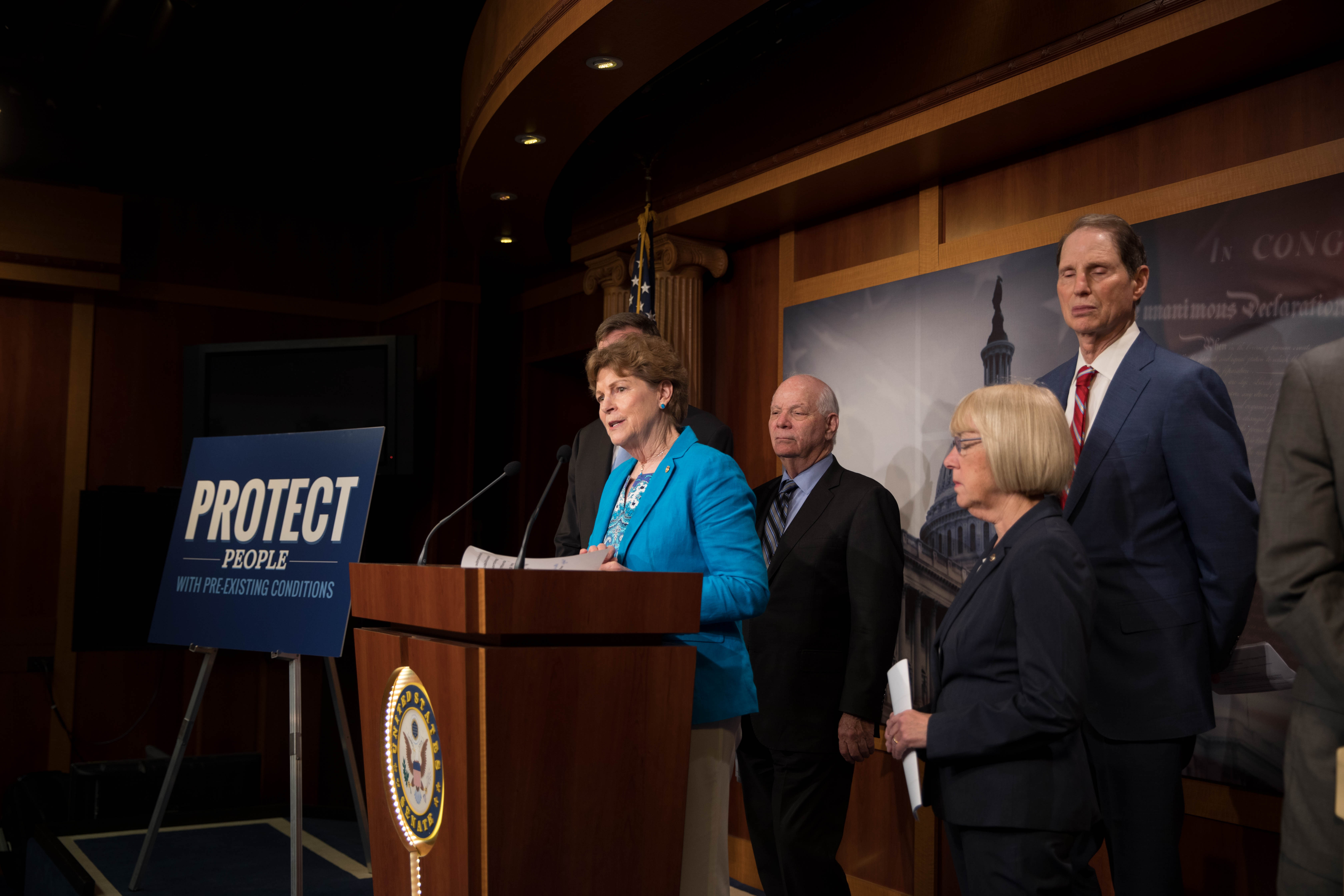 Healthcare_Presser_Gallery_073119 (99 of 117)